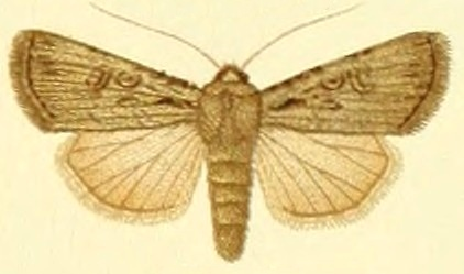 Image from Plate 7 of Die Gross-Schmetterlinge der Erde (The Macrolepidoptera of the World) Vol. 3